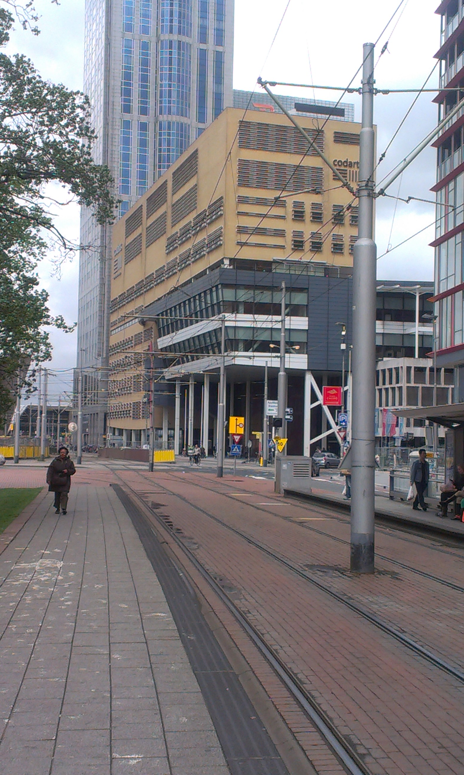 This is a picture of Codarts, University for the Arts in Rotterdam, the Netherlands